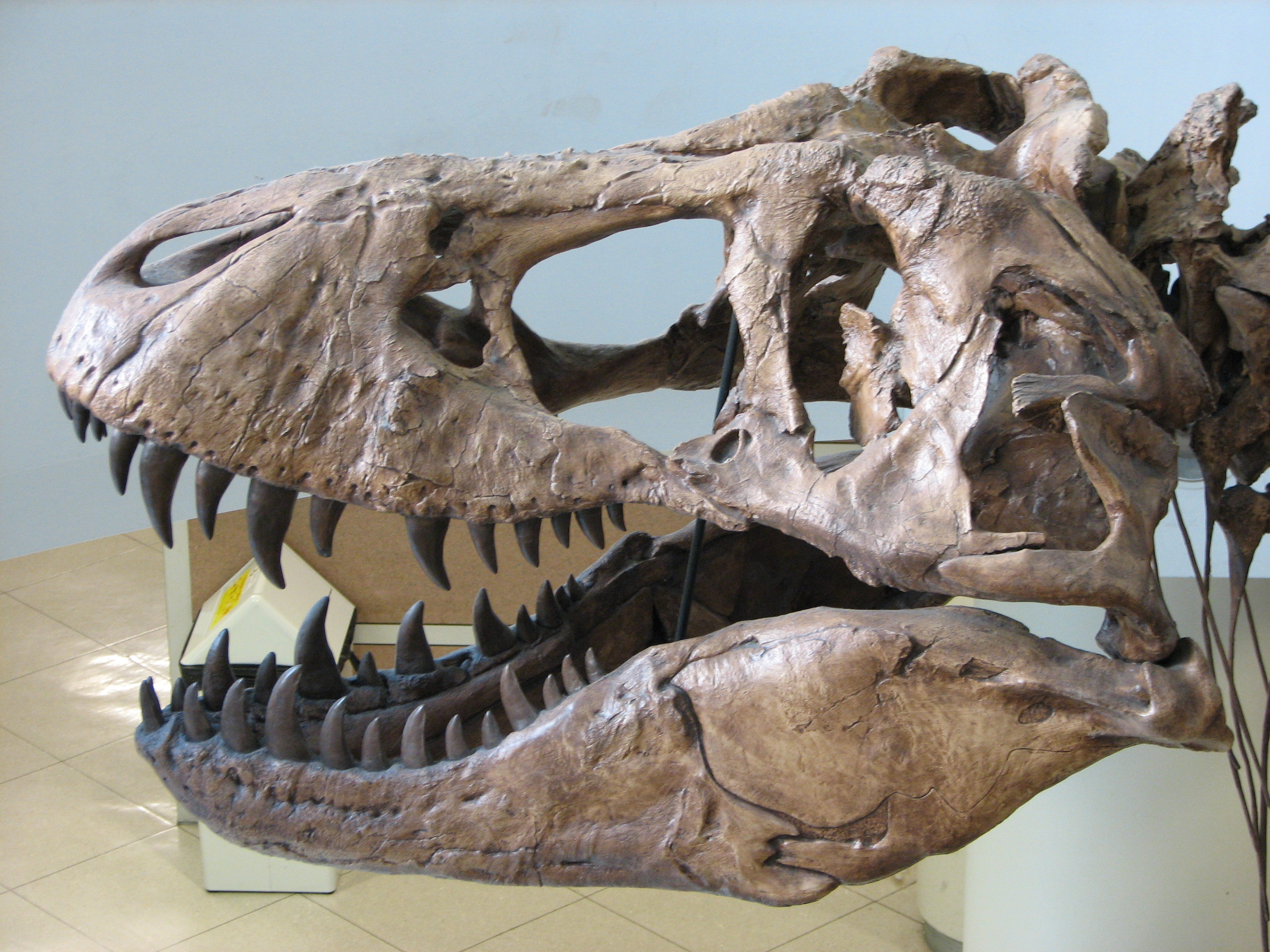 Tyrannosaurus rex skull (view from left side) on display at the University of California, Berkeley in VLSB